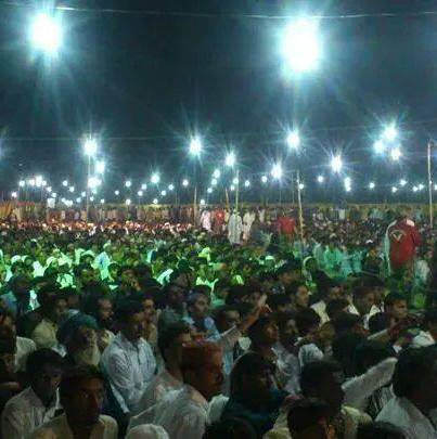 Kunri is the town of great Walis, Molood sharif is sung at weddings